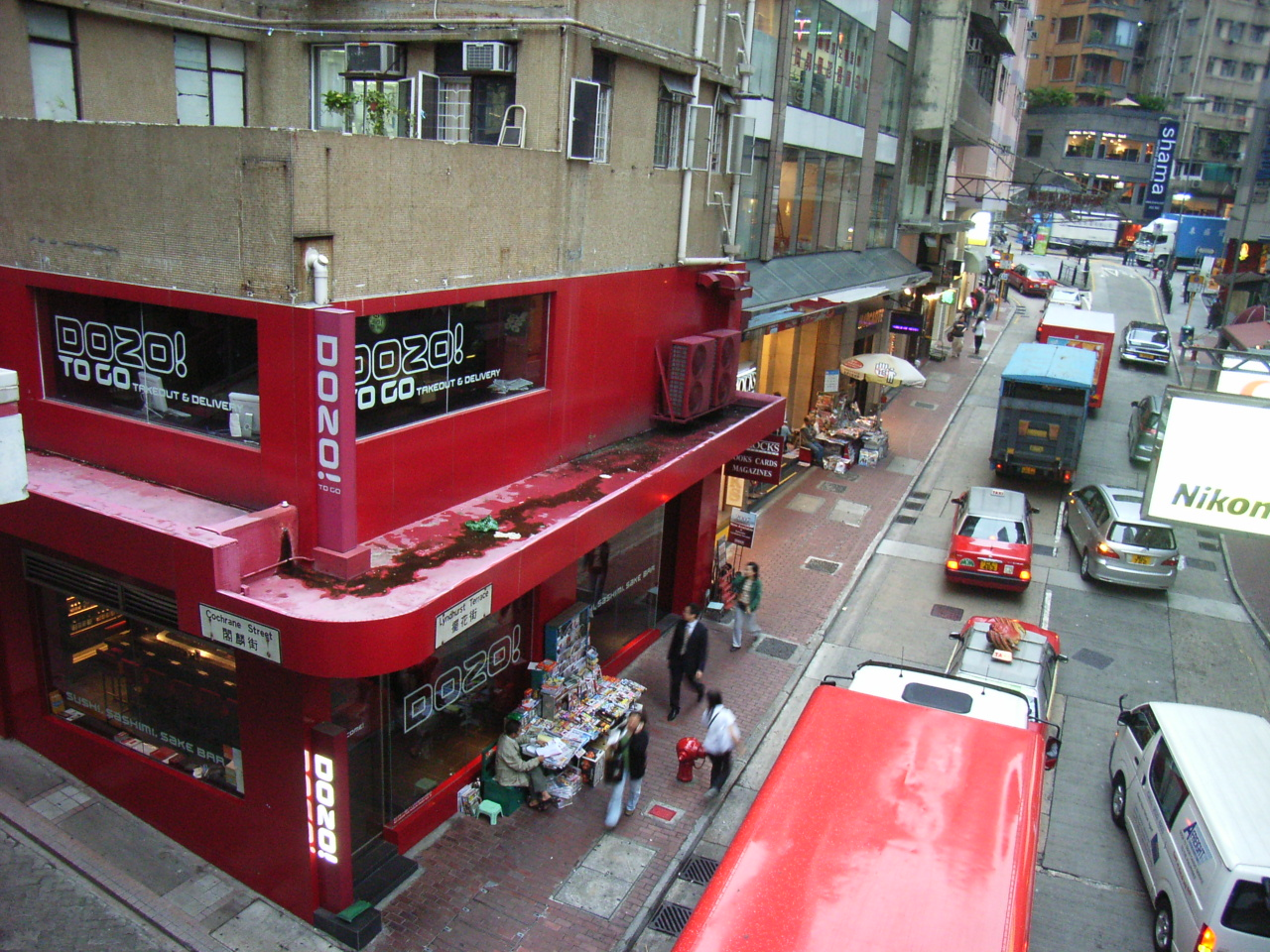 擺花街 (Lyndhurst Terrace) by Linda HU. Hollywood Road is visible on the right in the background.